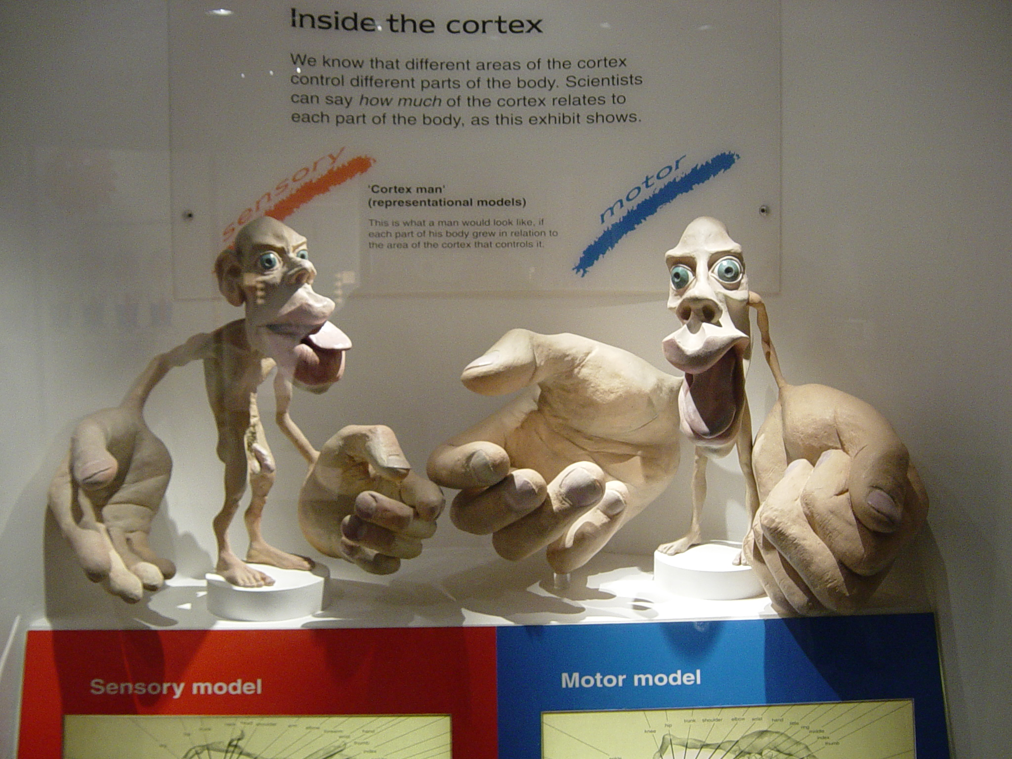 Sensory Homunculus and Motor Homunculus sculptures at the Museum of Natural History, London, based on the cortical homunculi mapped by Dr. Wilder Penfield. Photographed by Dr. Joe Kiff.